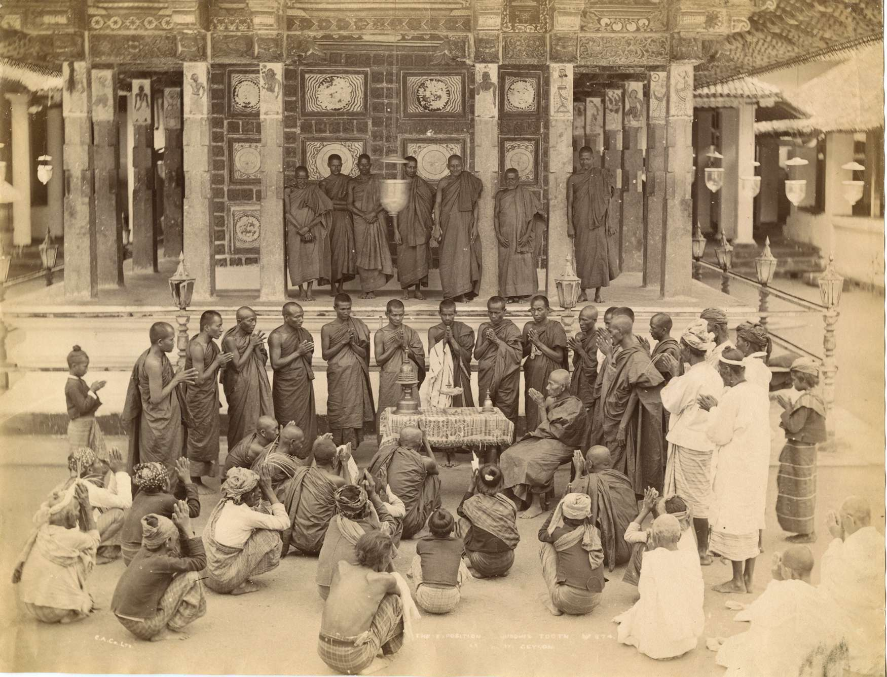 An albumen photo, c.1880; also *an interior view of a Buddhist temple*. "The exposition of Buddha tooth, Ceylon" Source: ebay, Aug. 2010